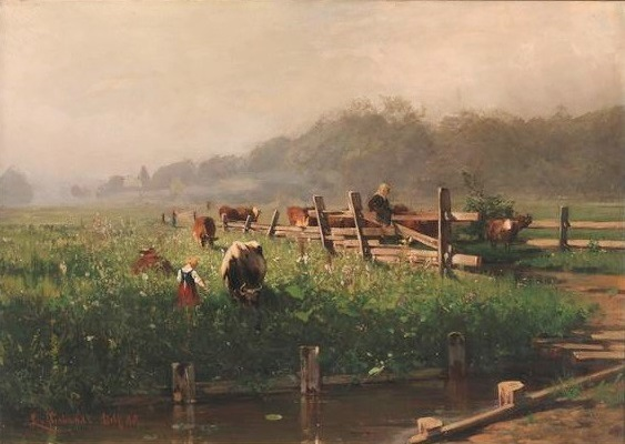 German Landscape (also known as Landscape with Cows) by Lina von Perbandt (oil on canvas)